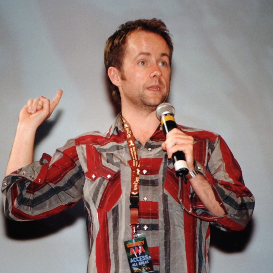 Scottish actor Billy Boyd at the Lord of the Rings-Convention Ring*Con 2005 in Fulda, Germany.